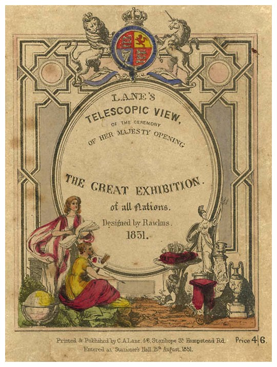 London exhibition 1851